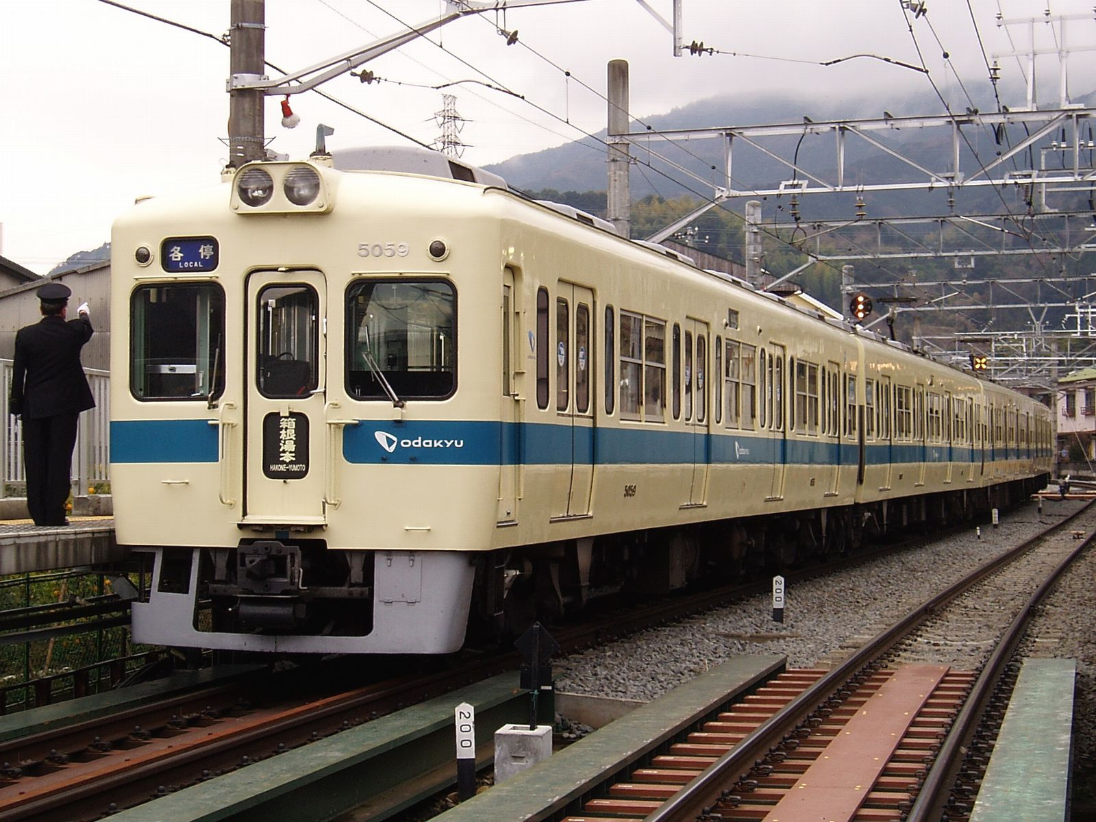 Odakyu Electric Railway Company, EMU Type 5000 at Kazamatsuri Sta.